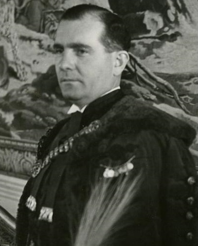 Pro-Nazi Hungarian politician Andor Jaross as a member of the Imrédy Cabinet in 1938